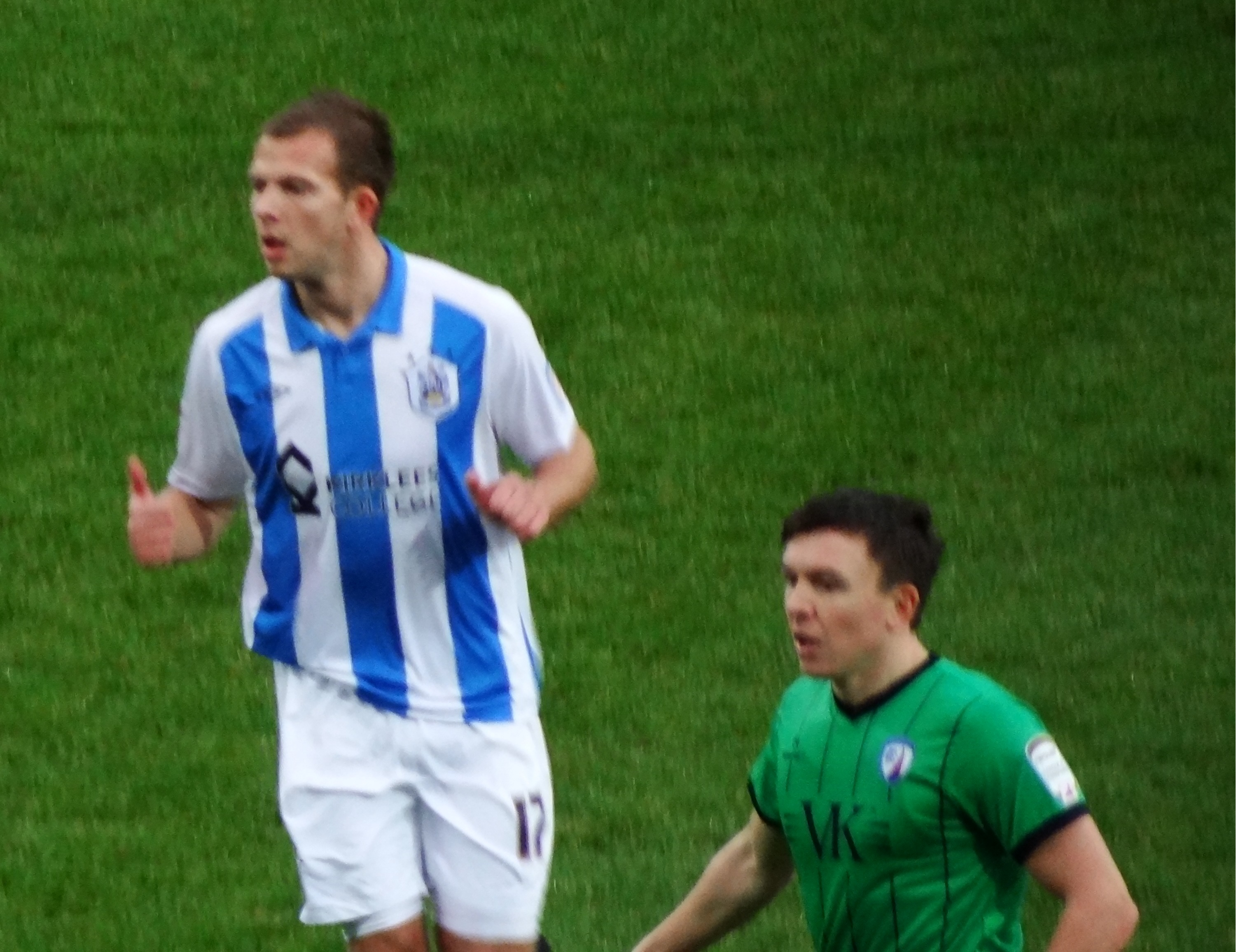 Jordan Rhodes with the shirt of Huddersfield Town (2)